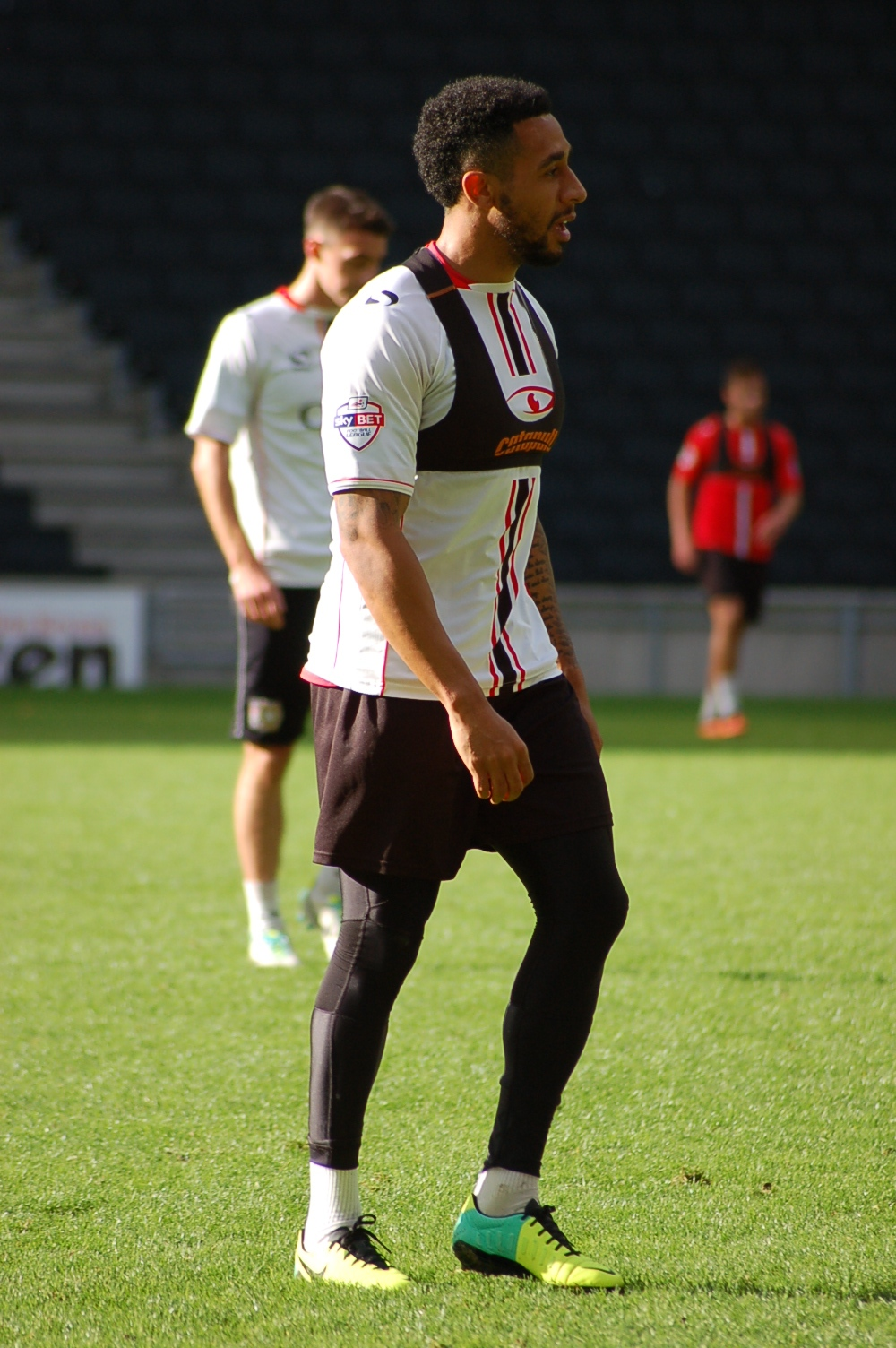 Jon Otsemobor during MK Dons open training on 29 October 2013.